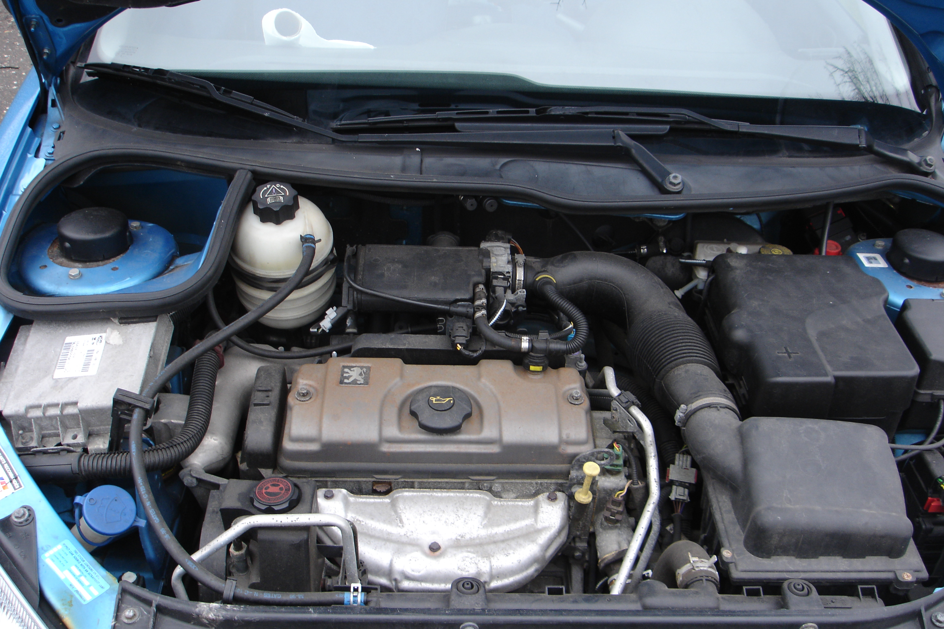 A 1999 3 door Peugeot 206 with a 1.1 L TU1JP petrol engine Kurdî: Peugeot 206 3 dirga sali 1999 ba 1.1 L TU1JP petrol mator